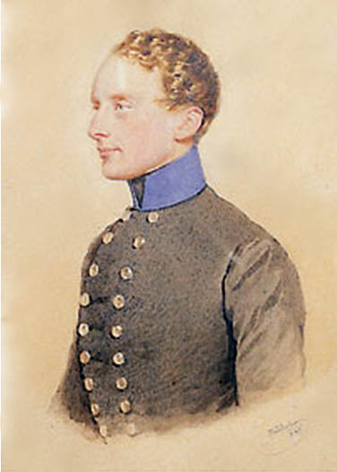 Wilhelm Albrecht, Count of Montenouvo